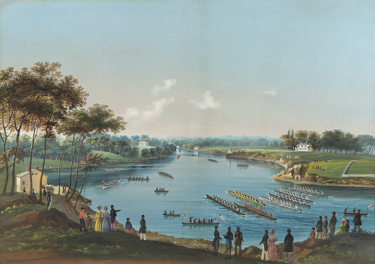 The First Schuylkill Regatta by Nicolino Vicompte Calyo, circa 1835, gouache on paper, 16 x 22½ inches